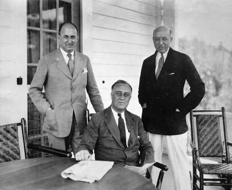 Franklin D. Roosevelt with Henry Morgenthau and another man at the Little White House, Warm Springs, Georgia.